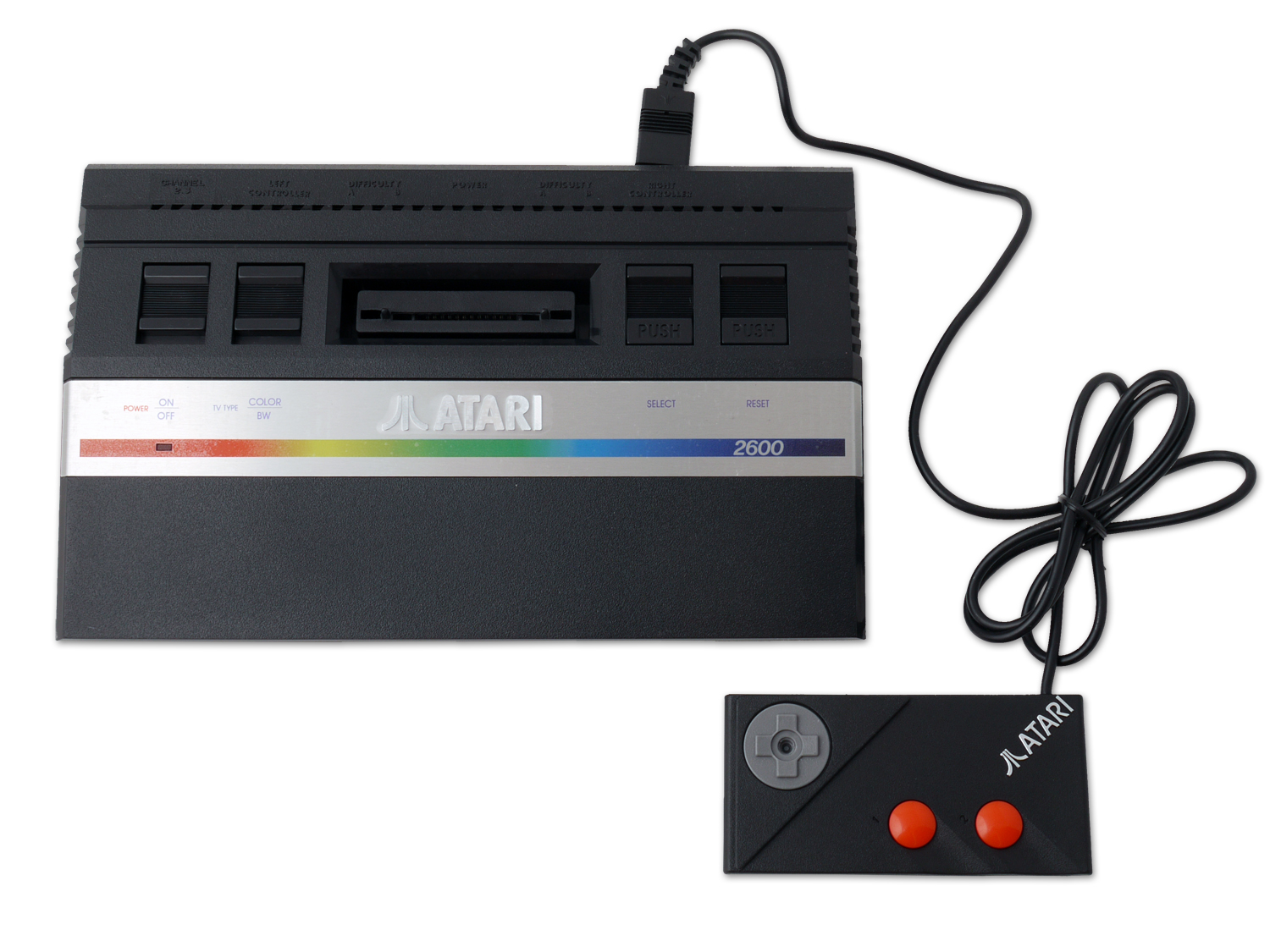 2009-074-001. Atari 2600 with controller